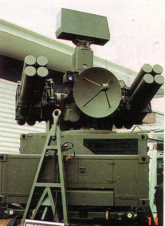 Crotale NG